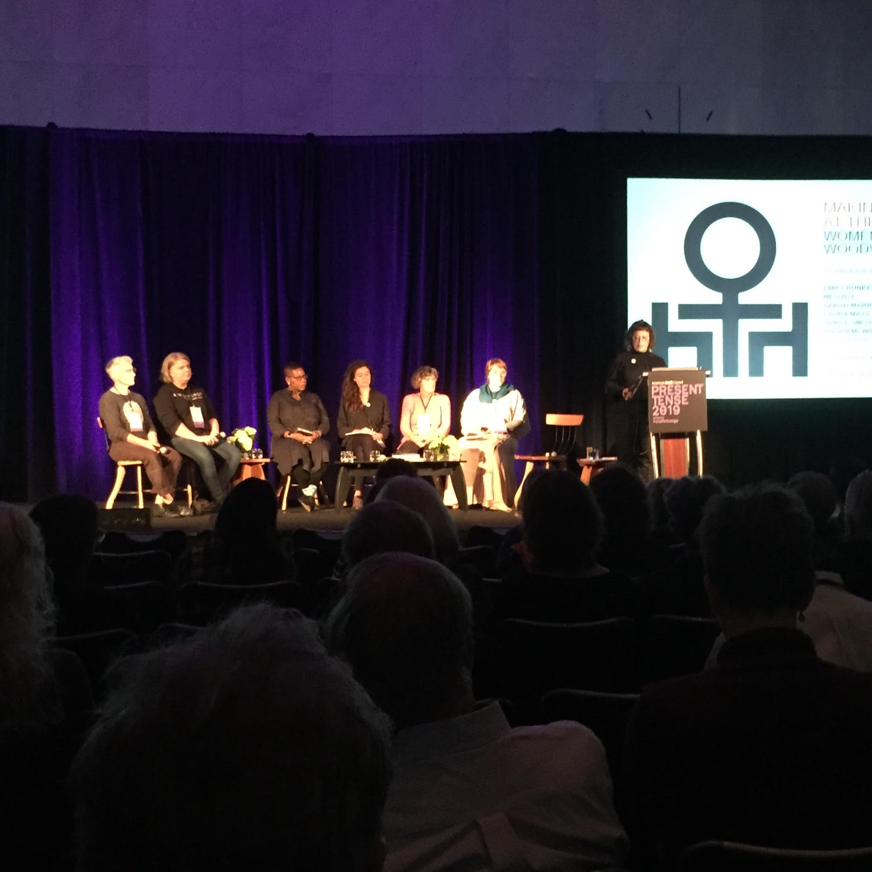 Making a Seat at the Table: Women Transform Woodworking panel discussion at the American Craft Council Conference in Philadelphia in 2019. Hosted by Jennifer-Navva Milliken featuring woodworkers Laura Mays, Meg Bye, Emily Bunker, Folayemi Wilson, and Sarah Marriage of A Workshop of Our Own.